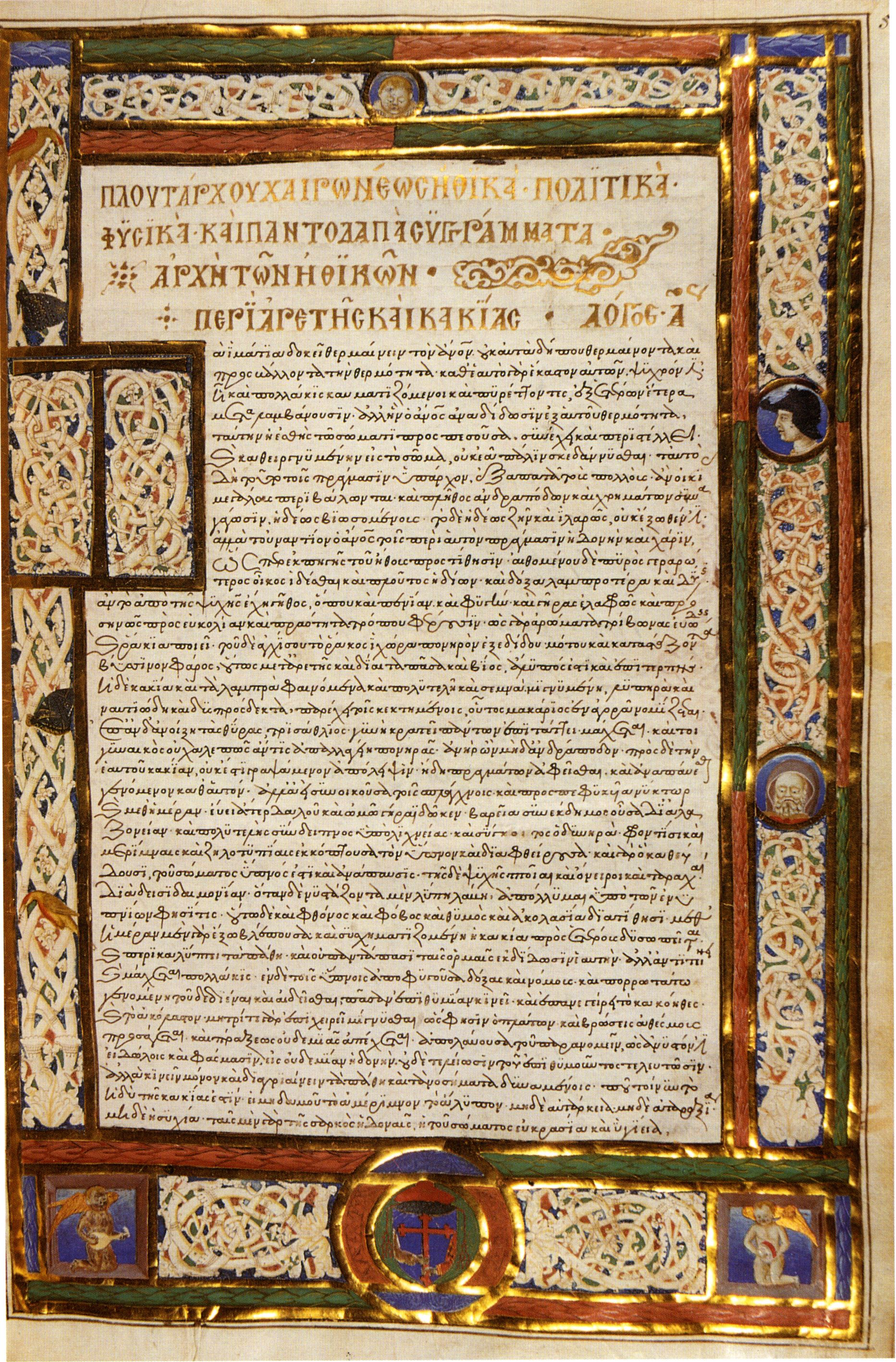 manuscript written for Bessarion